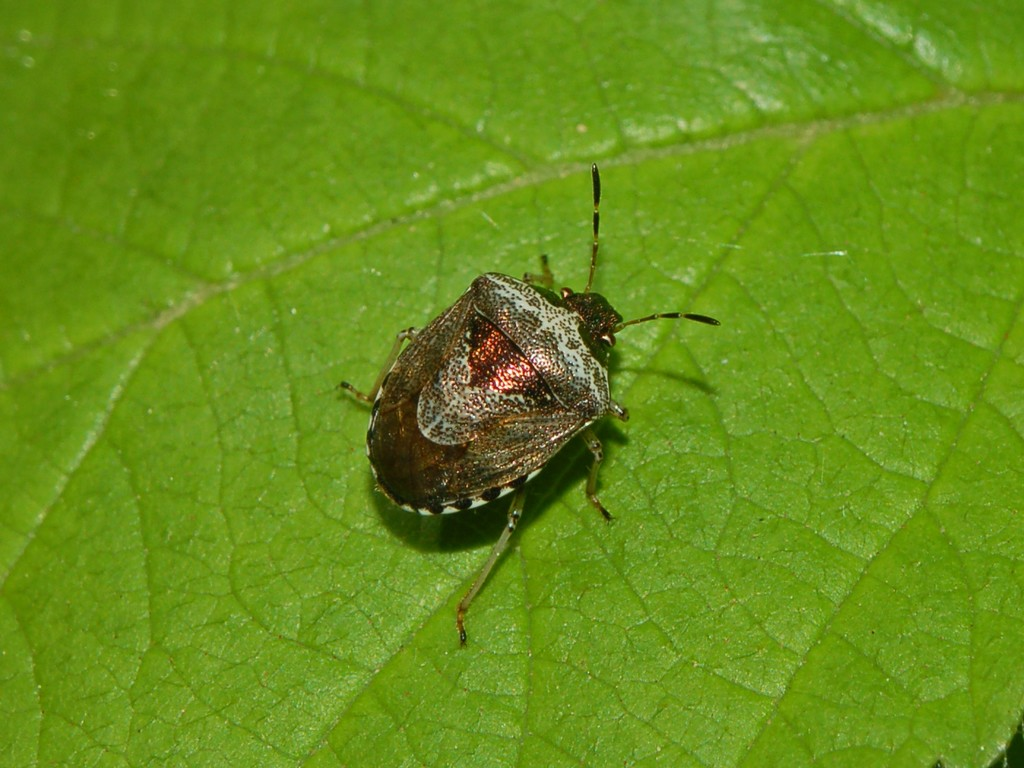 Eysarcoris venustissimus